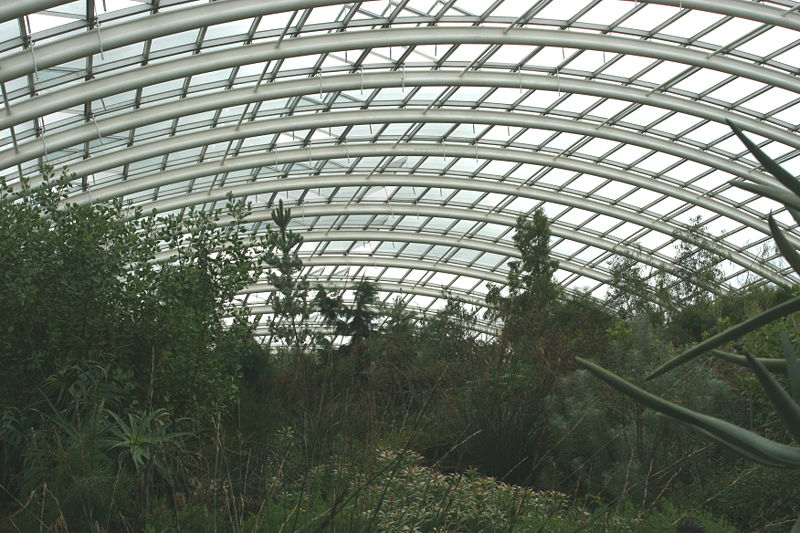 National Botanic Garden of Wales